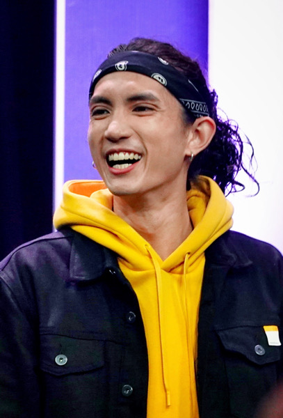 Lokman Yeung